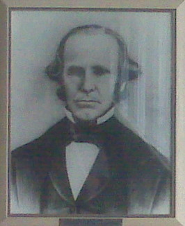 Photograph of portrait of Lot Whitcomb, founder of the city of Milwaukie, Oregon, taken at Lot Whitcomb Elementary School in Milwaukie